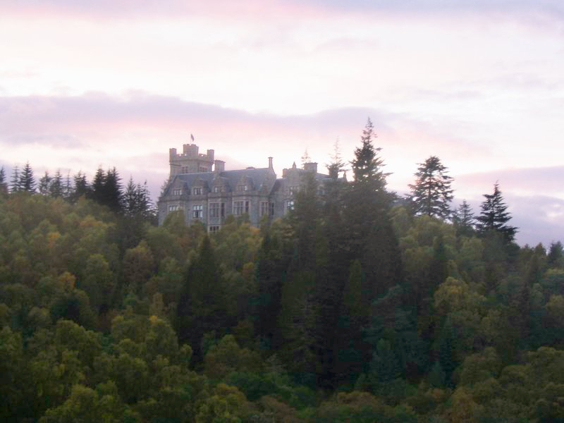 Carbisdale Castle, Scotland